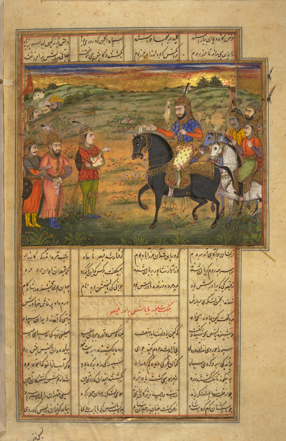 The capture of Valerian by the Persians (Persian: شاهنامه Šāhnāmeh "The Book of Kings") by Hakim Abu ʾl-Qasim Ferdowsi Tusi (Tus, 940-1020 CE)